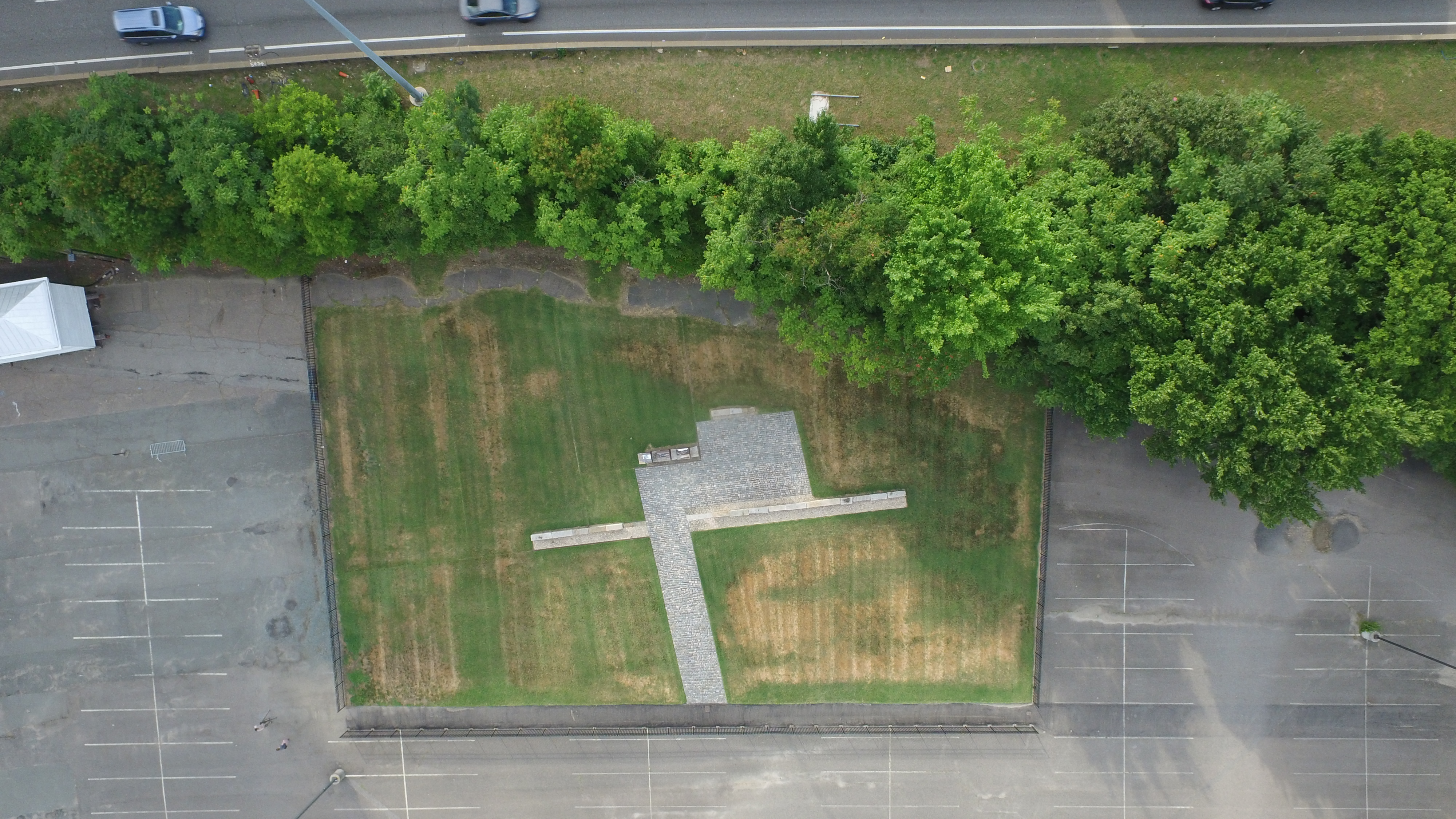 Aerial photograph of Lumpkin;s Jail Site